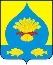 Kalininsky rayon (Krasnodar krai), coat of arms